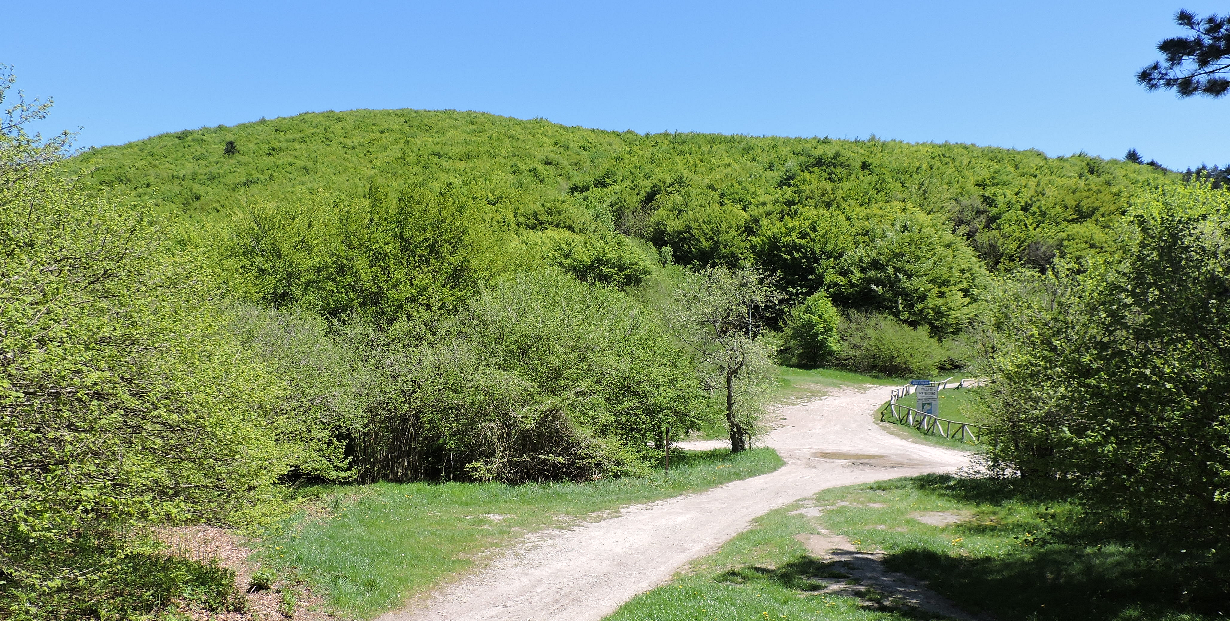 Colla di San Giacomo (Ligurian Alps, Italy) and Monte Alto area